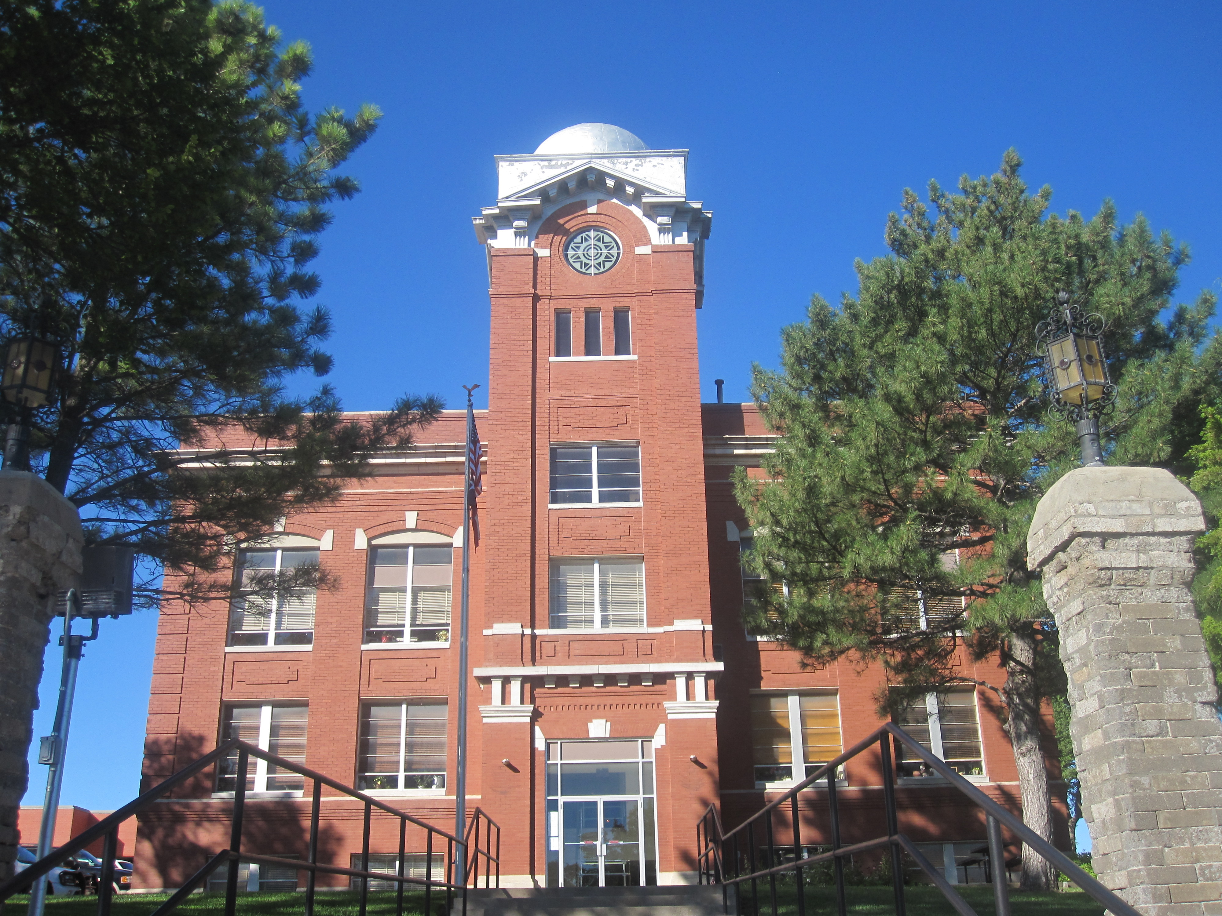 Hemphill County Courthouse. I took photo with Canon camera in Canadian, TX.